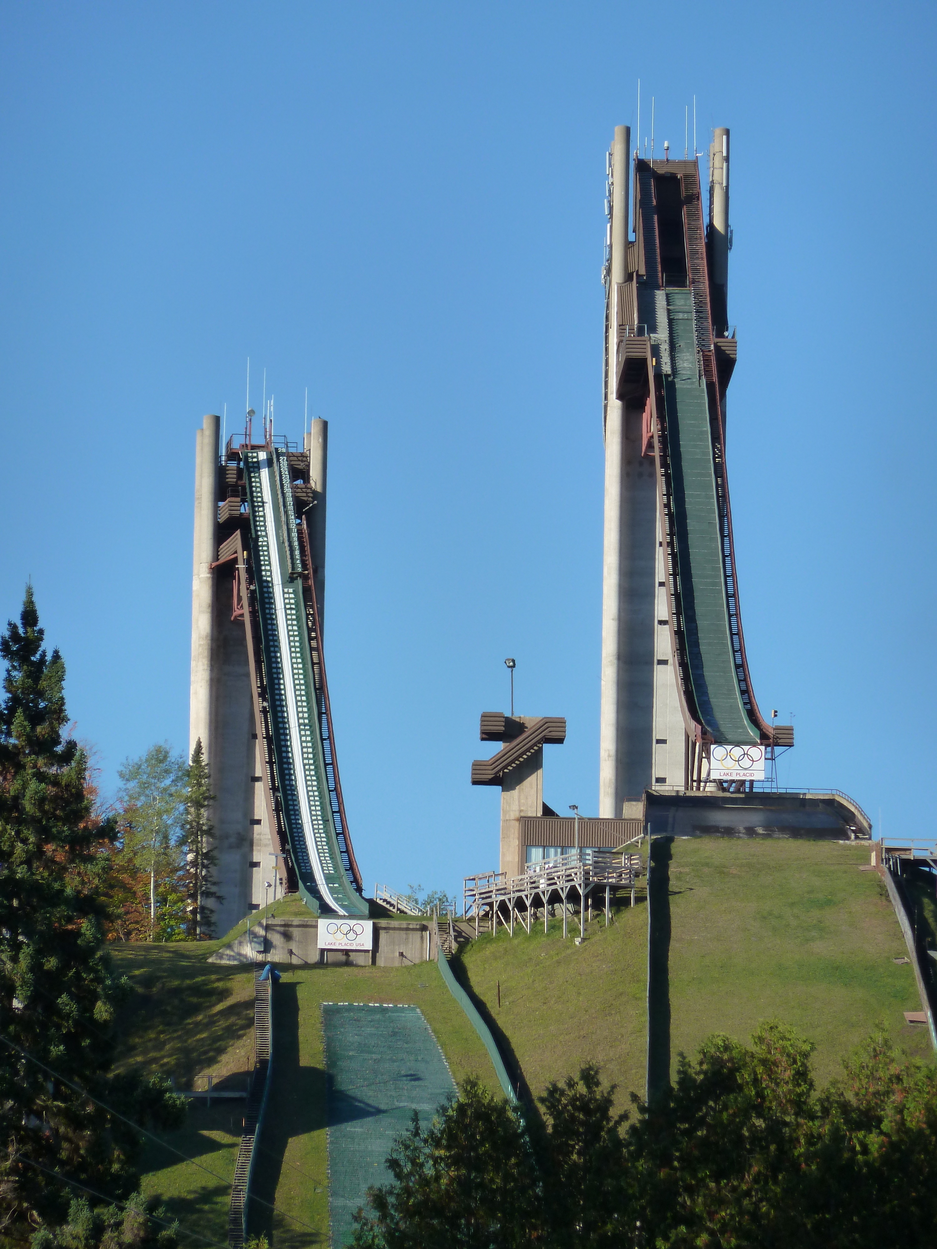 The ski jumping towers in Lake Placid, New York, USA